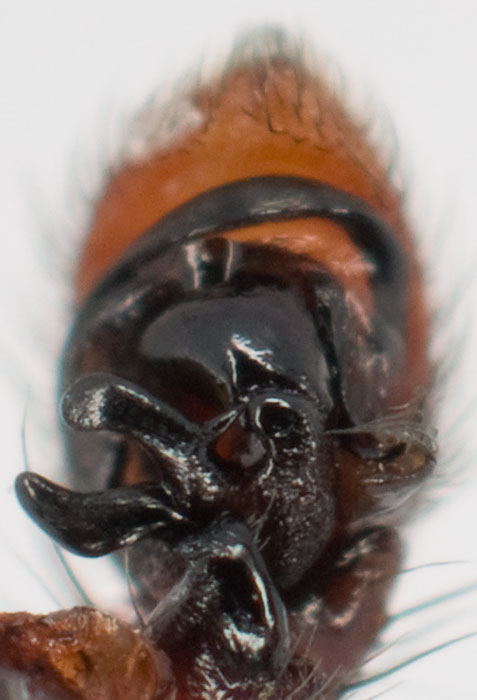 Pedipalpus of Xysticus kochi